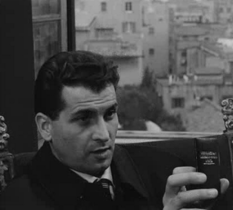 Marco Mariani in a scene of the film L'assassino